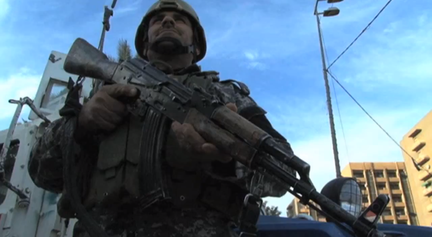 Baghdad, Iraq during the post withdrawal insurgency. Iraqi soldier standing guard in Baghdad, late December 2011.